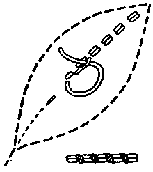 Dot stitch, from Samplers and Stitches, a handbook of the embroiderer's art by Mrs Archibald Christie, London 1920/New York 1921